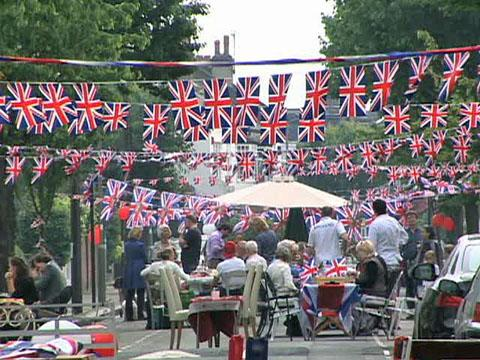 One festive party on the streets of London to celebrate the royal wedding of Prince William and Catherine Middleton, April 29, 2011